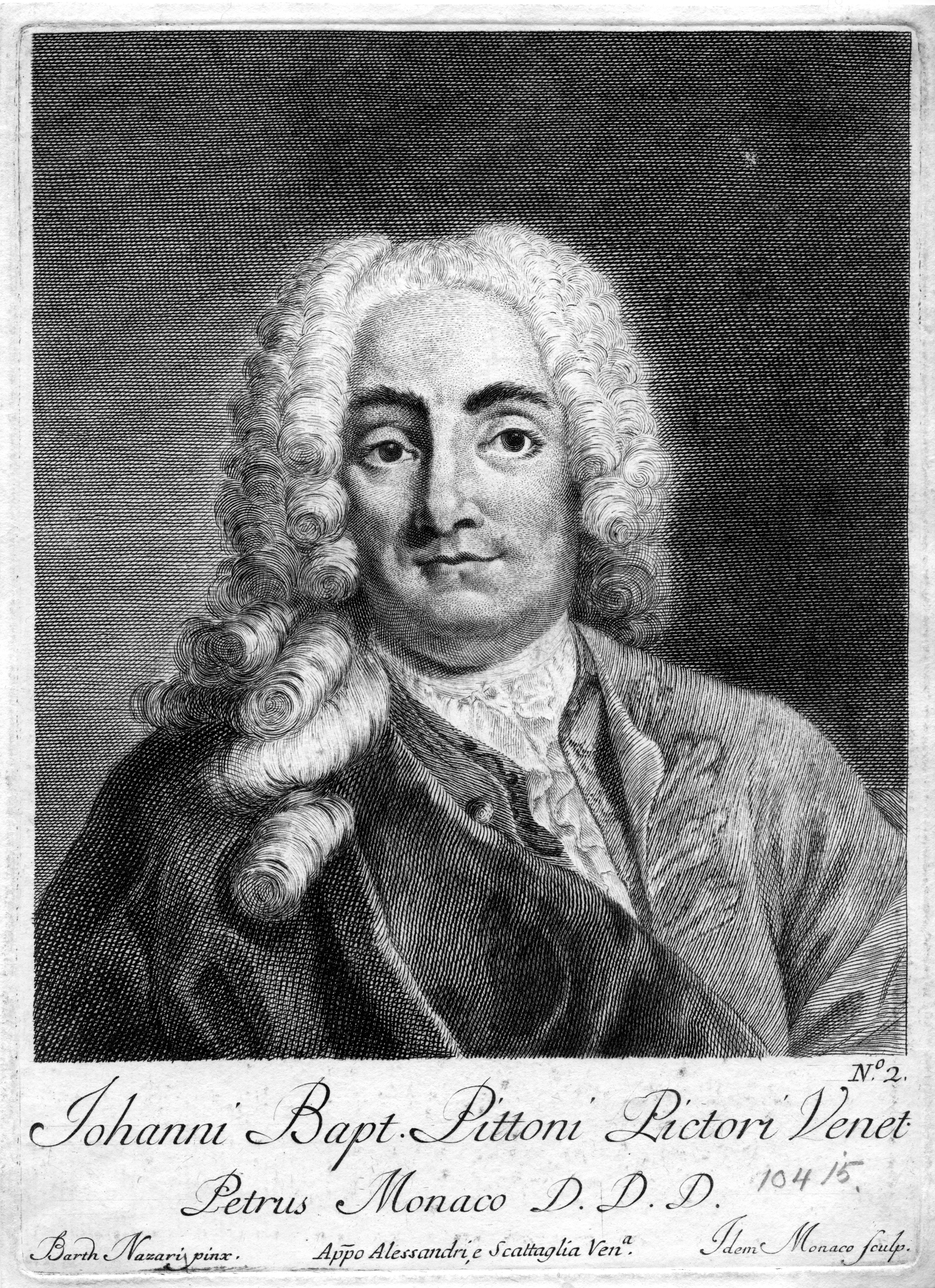 Portrait of Giambattista Pittoni by Bartolomeo Nazari, reproduced in: Laura Coggiola Pittoni (1907). Dei Pittoni, Artisti Veneti (in Italian). Bergamo: Istituto Italiani d'Arti Grafiche.